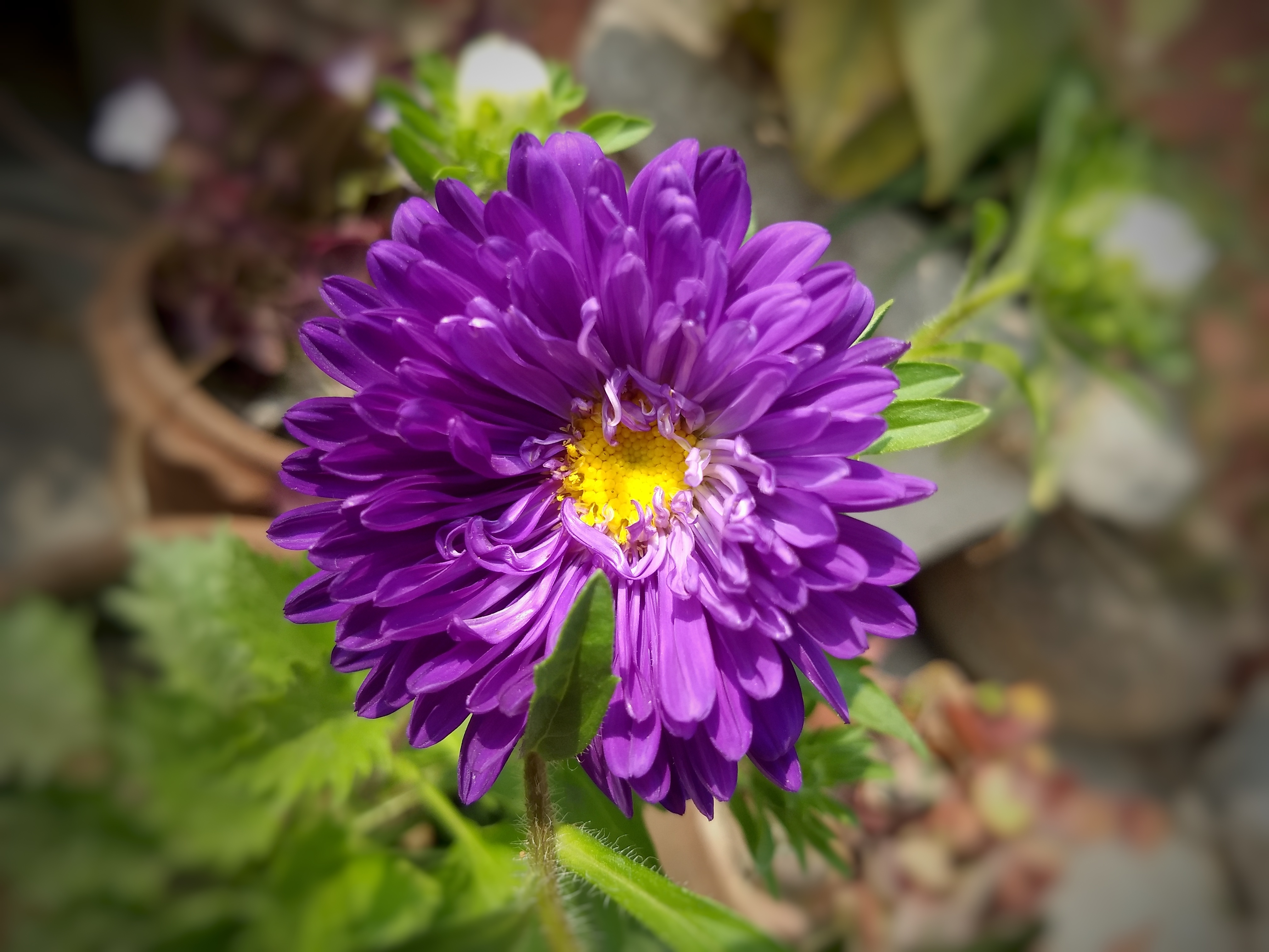 The name Aster comes from the Ancient Greek word ἀστήρ (astḗr), meaning "star", referring to the shape of the flower head. The Hungarian revolution of 31 October 1918, became known as the "Aster Revolution" due to protesters in Budapest wearing this flower.